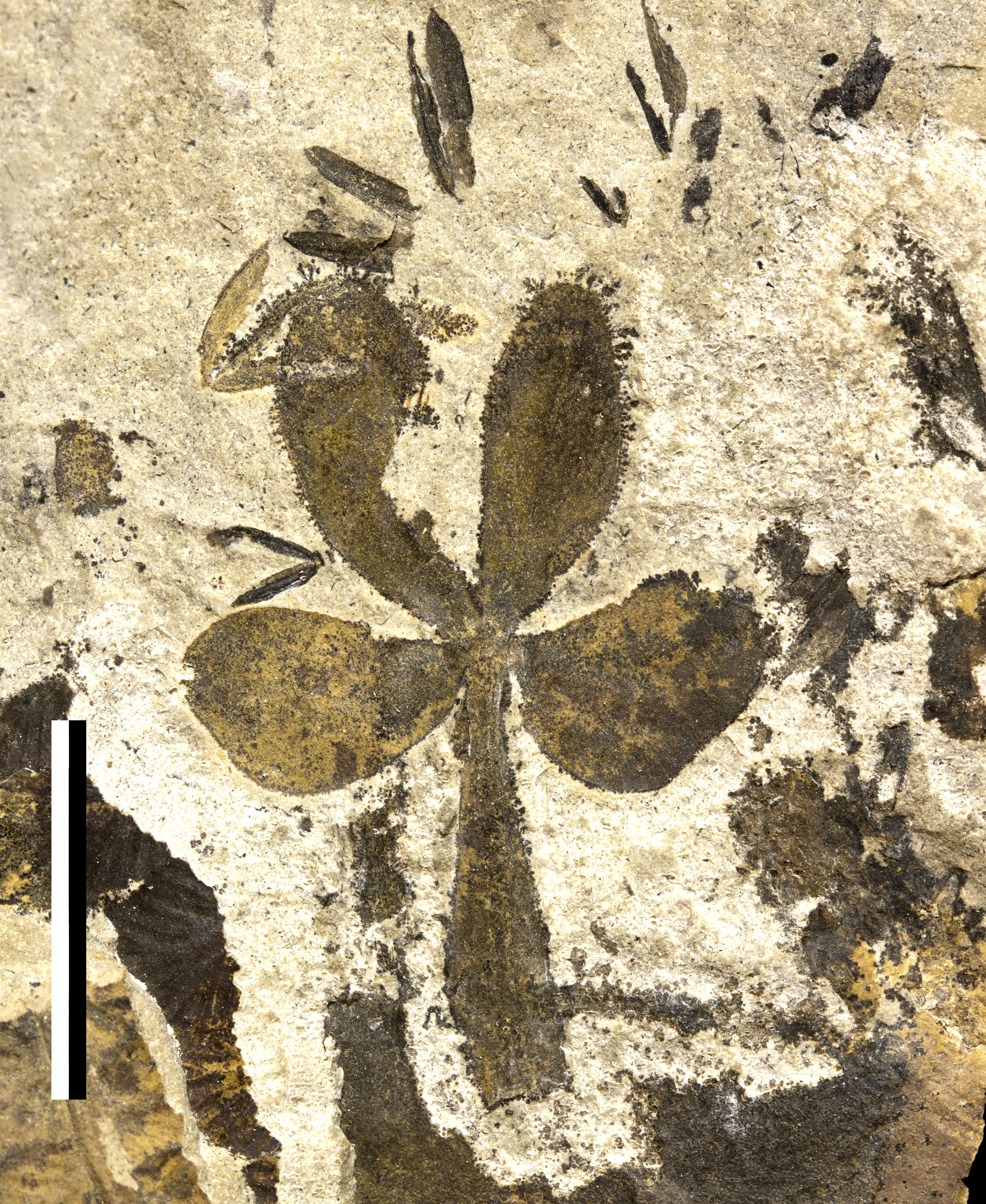 Complete leaf of Sagenopteris trapialensis, venation not visible. Isolated Caytonanthus synangia can be seen above the leaf.